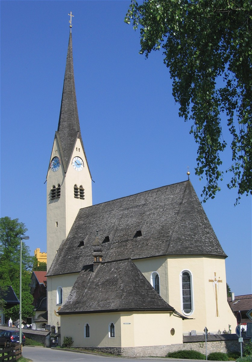 Brannenburg, view of the Parish Church of the Assumption from south-east.